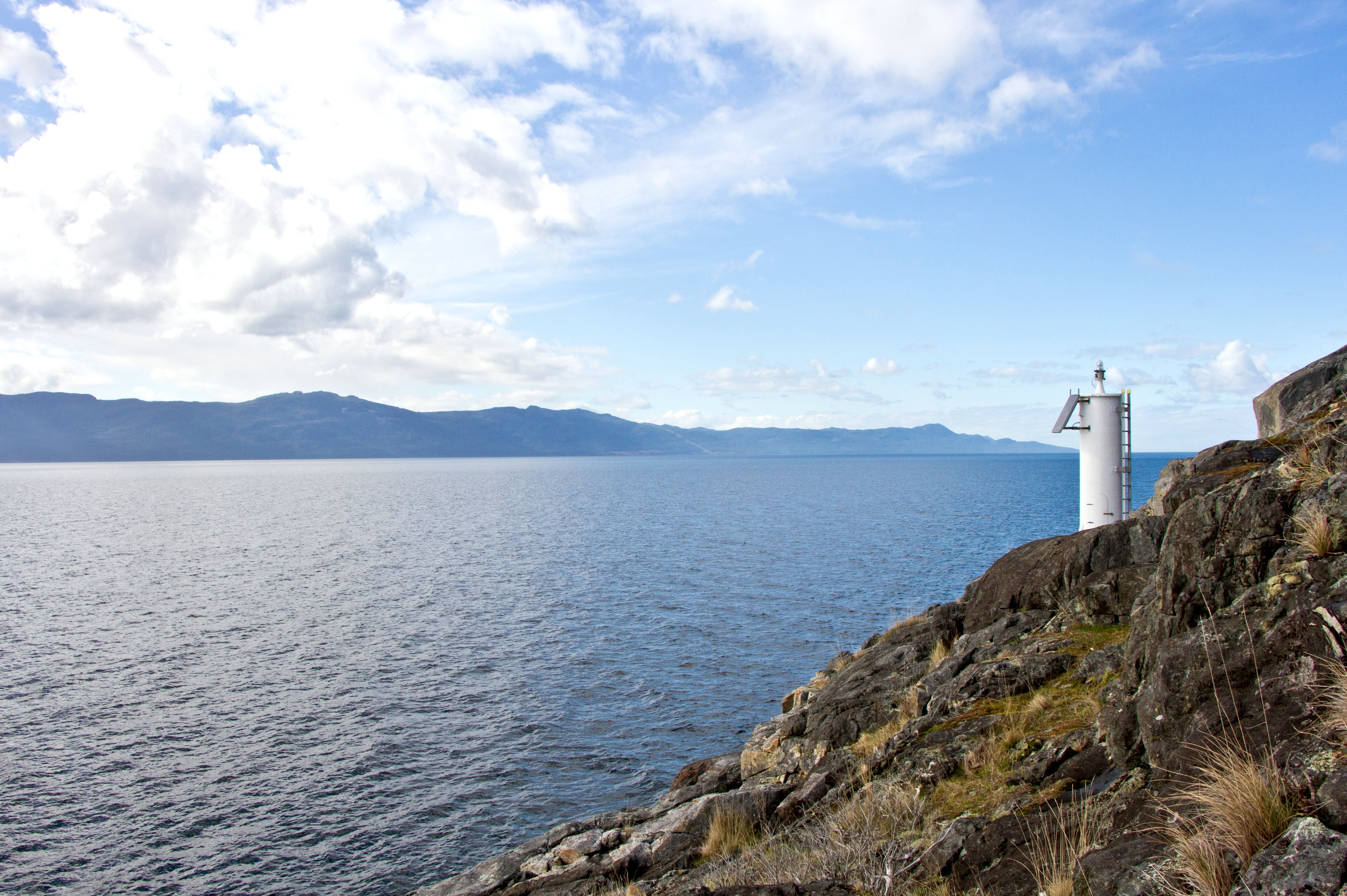 The light at Francis Point. Navigational lights on the coast flash at different colours, frequencies and lengths which correspond to notations on navigational charts. This helps boats determine where they are though this is all changing with the advent of GPS charting.